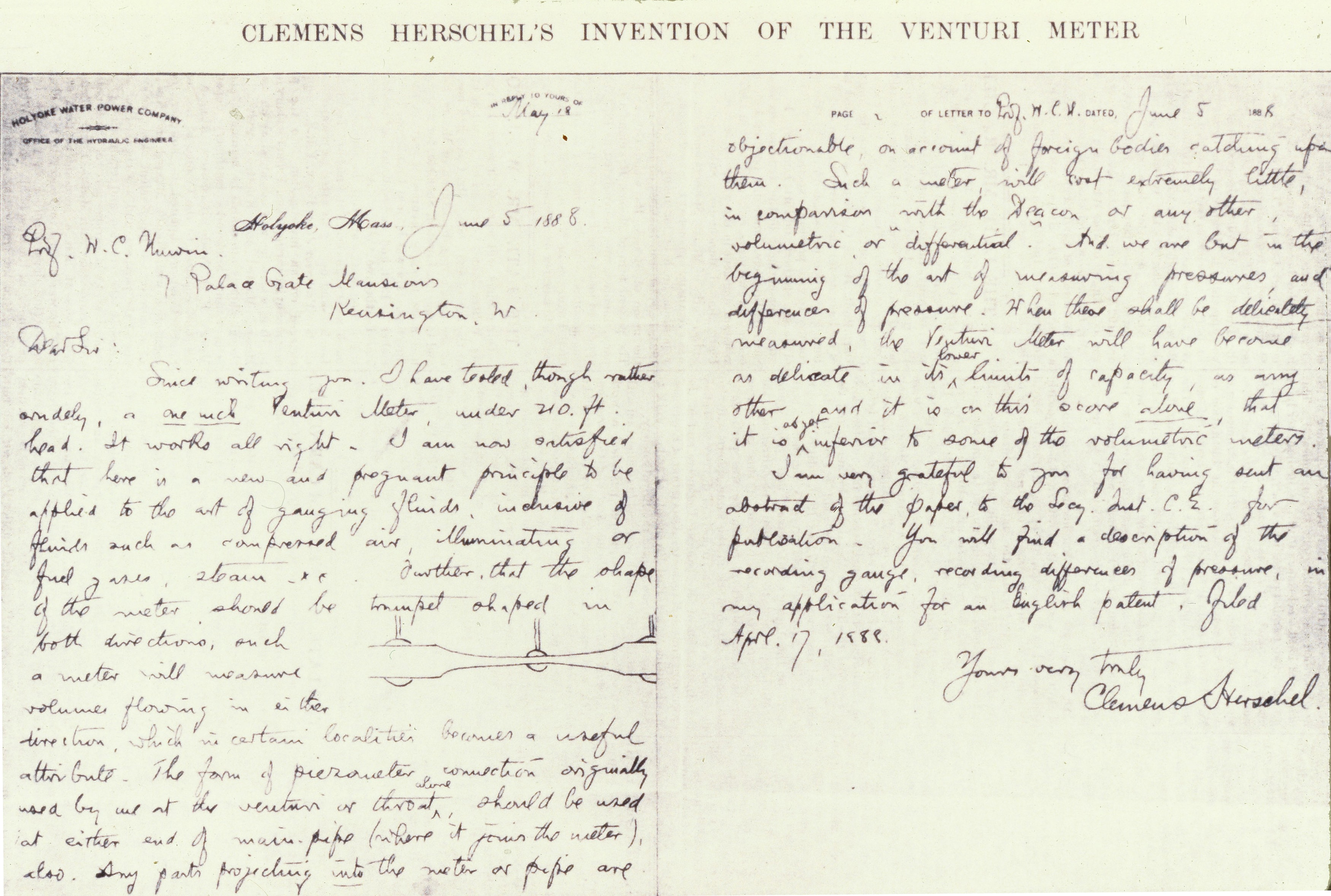 The letter from Clemens Herschel to Dr. William Unwin, referred here as W. C. Unwin, June 5, 1888 on Holyoke Water Power Company stationary, describing his development of the Venturi meter. This letter is cited in– (August 17, 1935). "Invention of the Venturi Meter". Nature 136 (3433): 254. "[The article] reproduces a letter from Herschel to the late Dr. Unwin describing his invention of the Venturi Meter. The letter is dated June 5, 1888, and addressed from the hydraulic engineer's office of the Holyoke Water Power Co., Mass. In his letter, Herschel says he tested a one-inch Venturi Meter, under 210 ft. head: 'I am now satisfied that here is a new and pregnant principle to be applied to the art of gauging fluids, inclusive of fluids such as compressed air, illuminating or fuel gases, steam, etc. Further, that the shape of the meter should be trumpet-shaped in both directions; such a meter will measure volumes flowing in either direction, which in certain localities becomes a useful attribute...'"